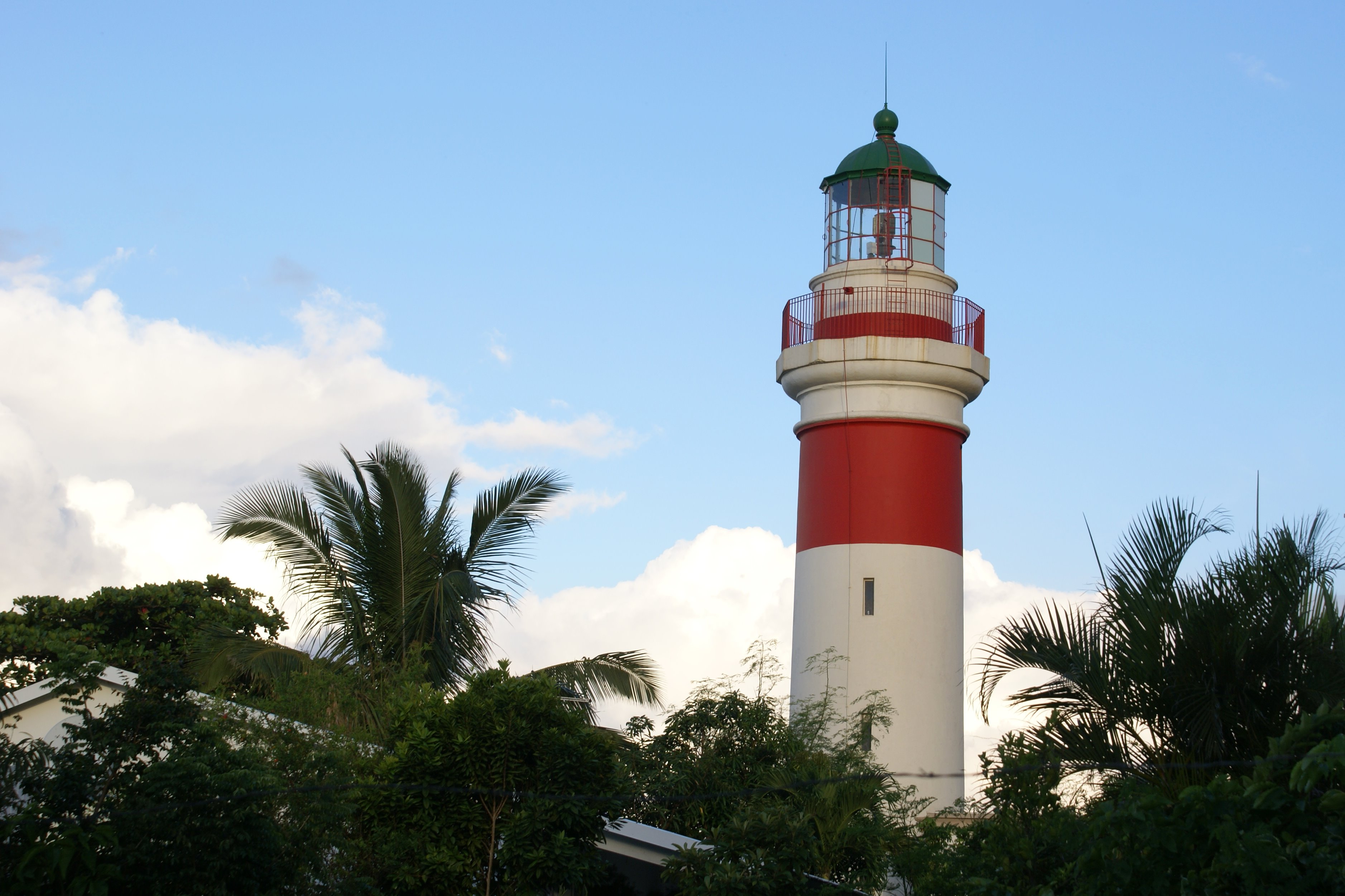 The lighthouse of Sainte-Suzanne (Réunion island)